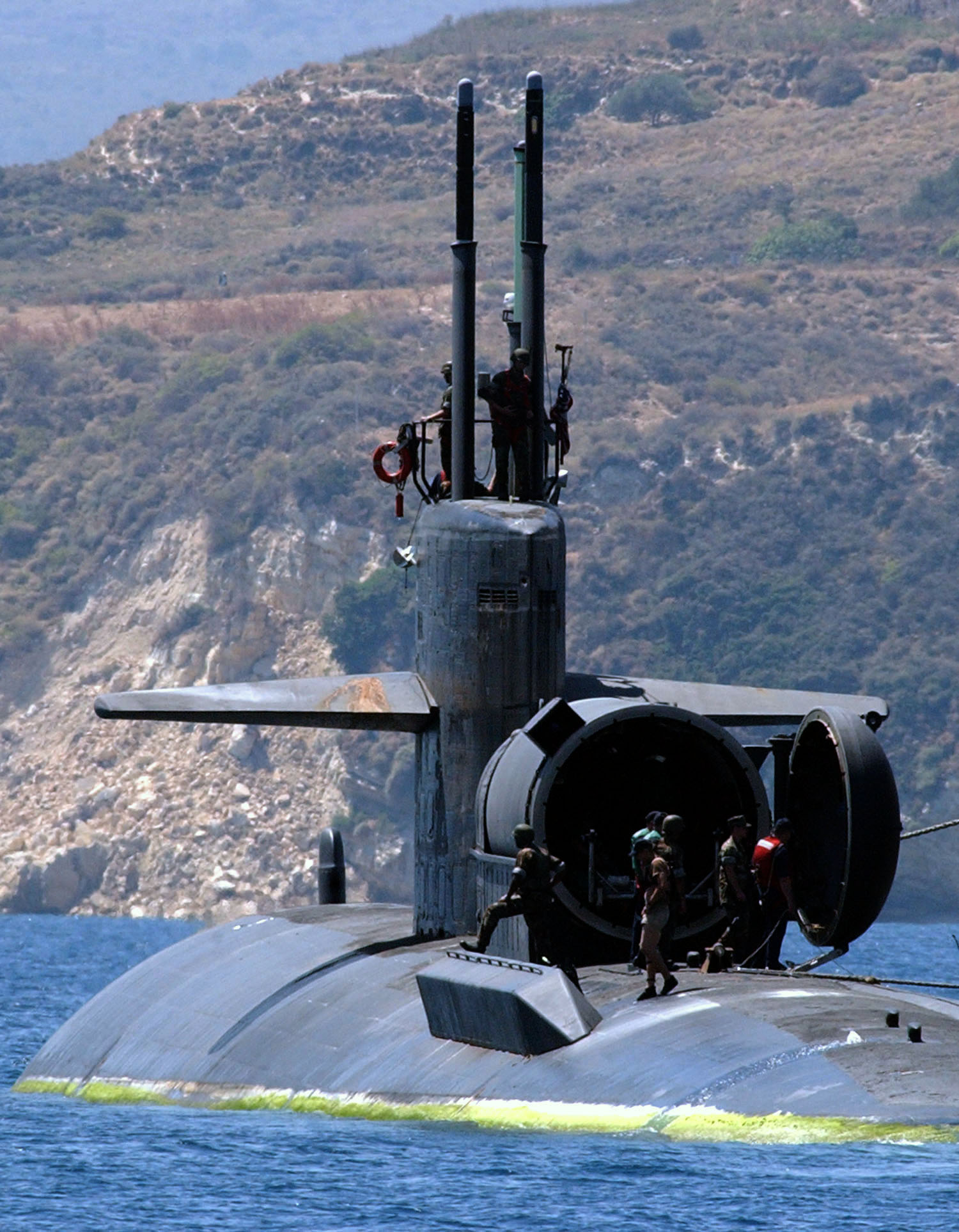 Souda Bay, Crete, Greece (July 19, 2004) - The Los Angeles-class attack submarine USS Dallas (SSN 700) departs Souda Bay harbor following a brief port visit. Dallas is homported in Groton, Conn., and currently on a routine deployment. Commissioned in 1981, Dallas is the first Los Angeles class submarine to have a dry deck shelter. Dry Deck Shelters provide specially configured nuclear powered submarines with a greater capability of deploying Special Operations Forces (SOF). DDSs can transport, deploy, and recover SOF teams from Combat Rubber Raiding Crafts (CRRCs) or SEAL Delivery Vehicles (SDVs), all while remaining submerged. In an era of littoral warfare, this capability substantially enhances the combat flexibility of both the submarine and SOF personnel. U.S. Navy photo by Paul Farley (RELEASED)